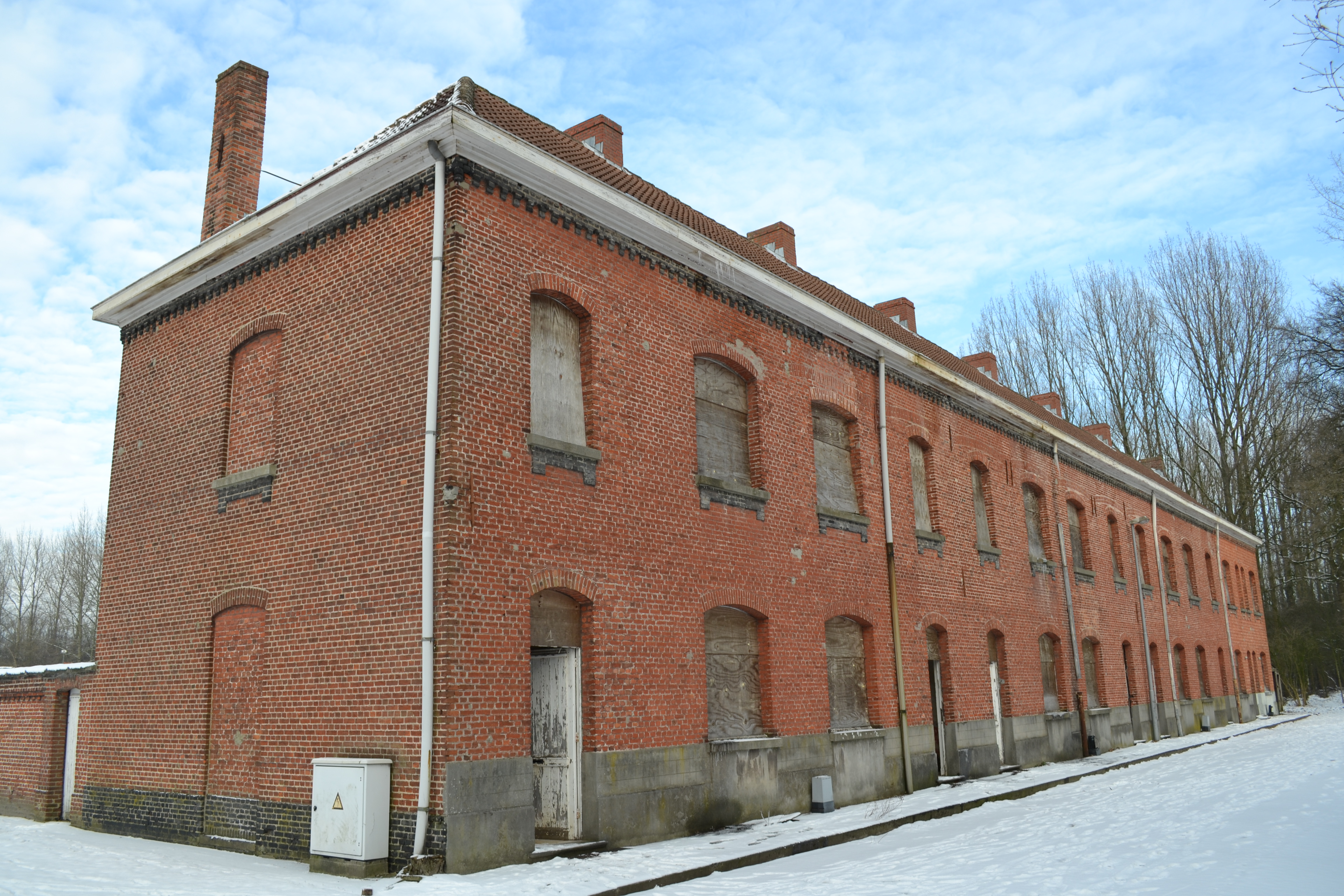 The old Guard houses at Zoete Inval in their current state (January, 2012)